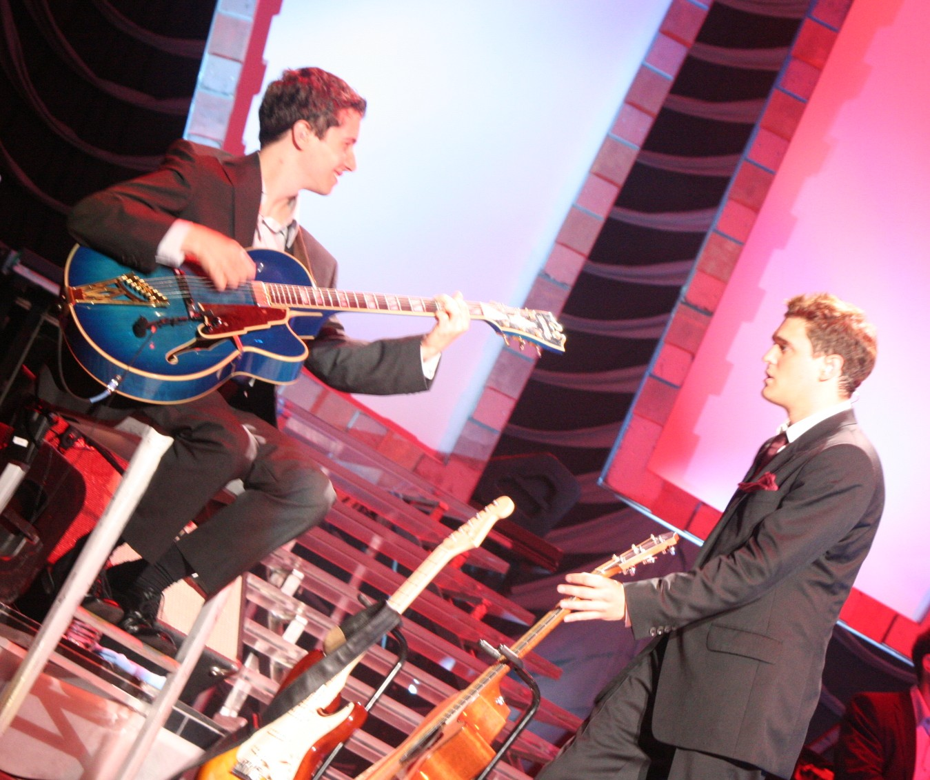 This is a photo of Randy Napoleon performing at the Wiltern Theater in LA with Michael Buble. It illustrates the article "Randy Napoleon" in the following ways: the article states that Randy Napoleon has performed with Michael Buble and it states that Napoleon has played in the top venues in the United States. This is an example of both. This also illustrates the Former Band Members section of the "Michael Buble" article, since Napoleon toured with Buble from 2004-2007. The photograph was taken by Sereyna Avilia who gives permission to share it.